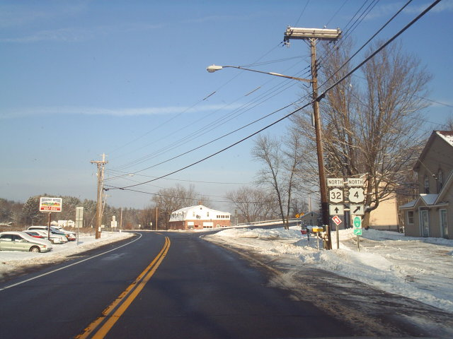 North end of the overlap between U.S. Route 4 and New York State Route 32 in Northumberland.